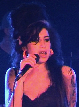 Winehouse Berlin